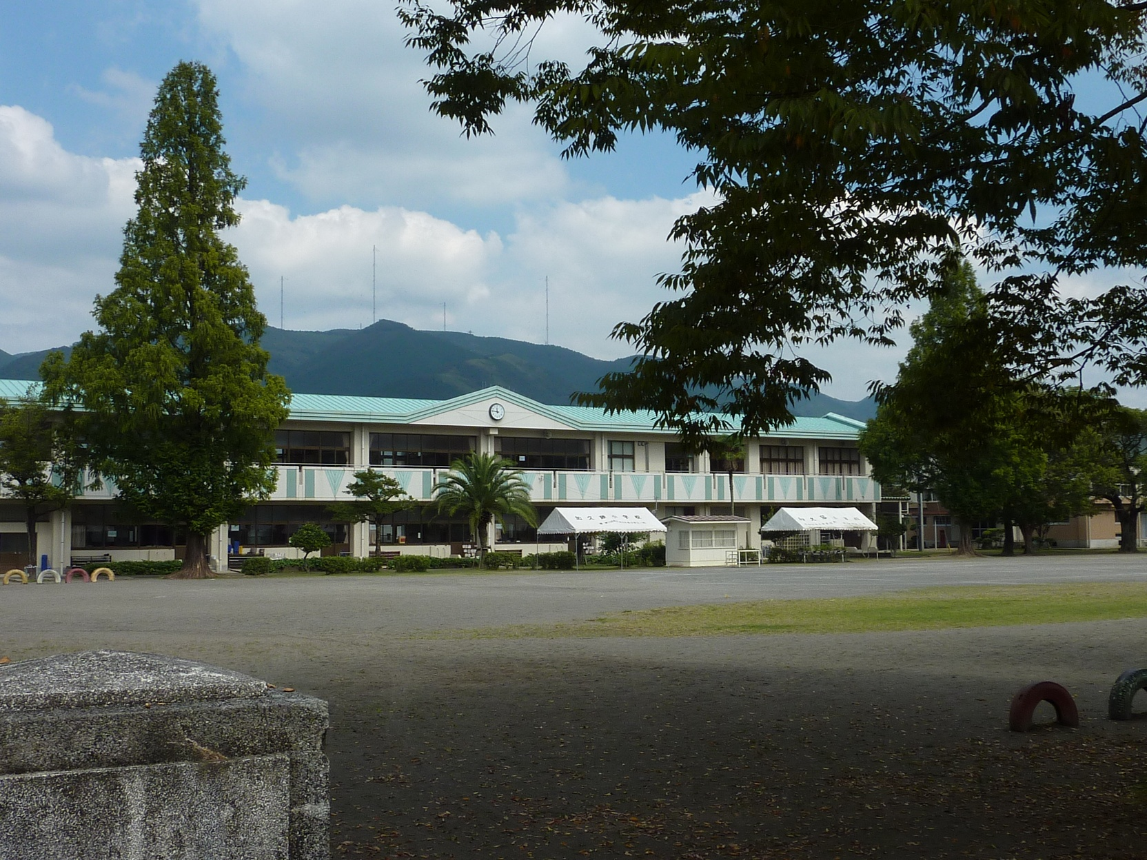 Kakuto Elementary School (Ebino City, Miyazaki Prefecture, Japan)